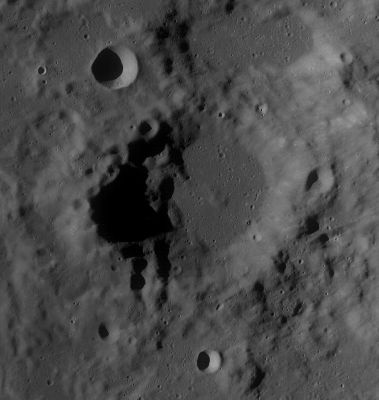 LROC image WAC No. M118416758ME. Calibrated by LROC_WAC_Previewer.